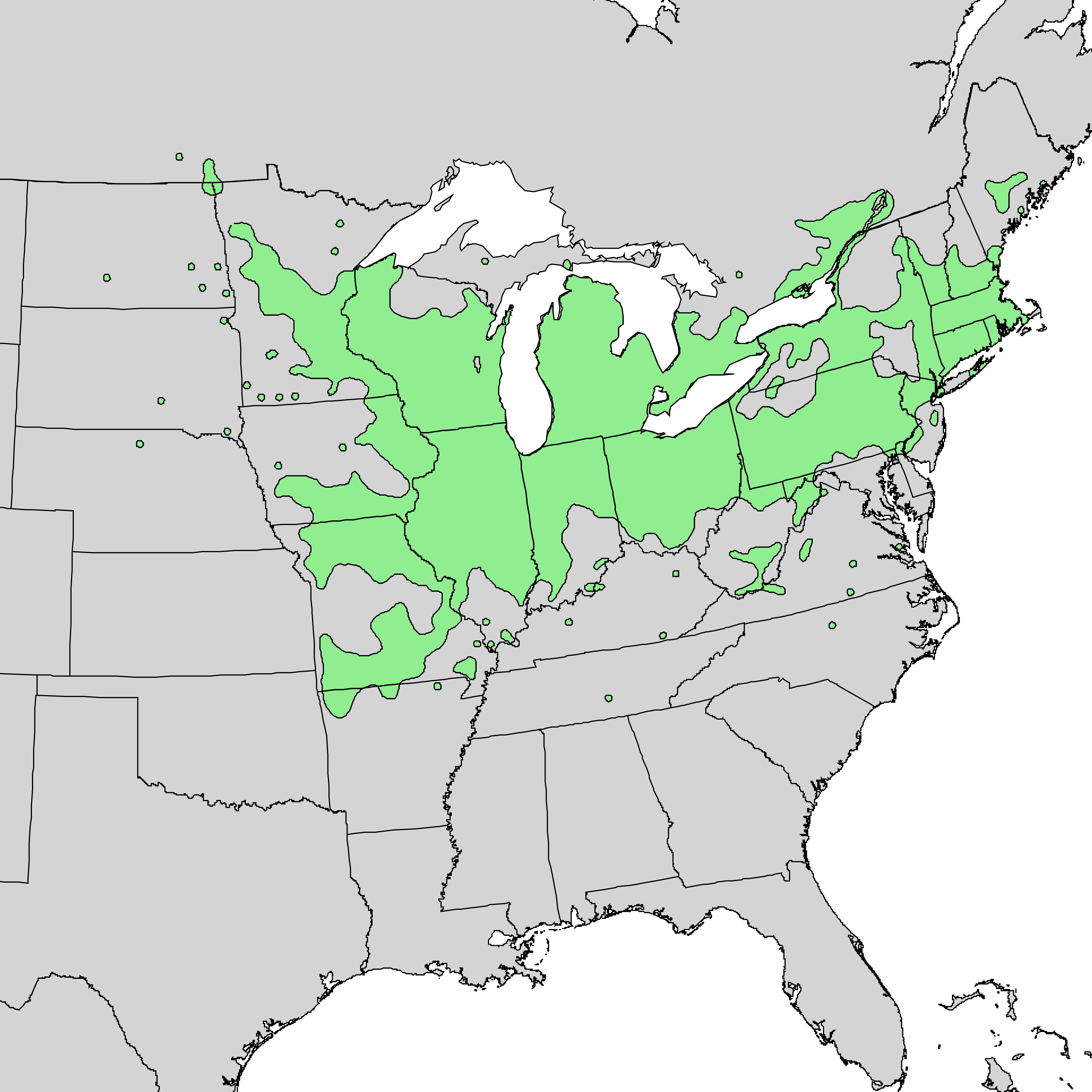 Natural distribution map for Cornus racemosa